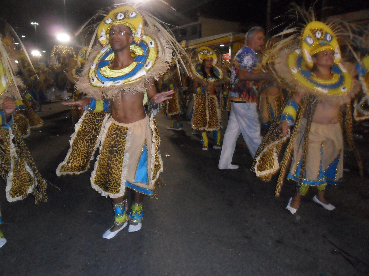 GRES Acadêmicos do Dendê